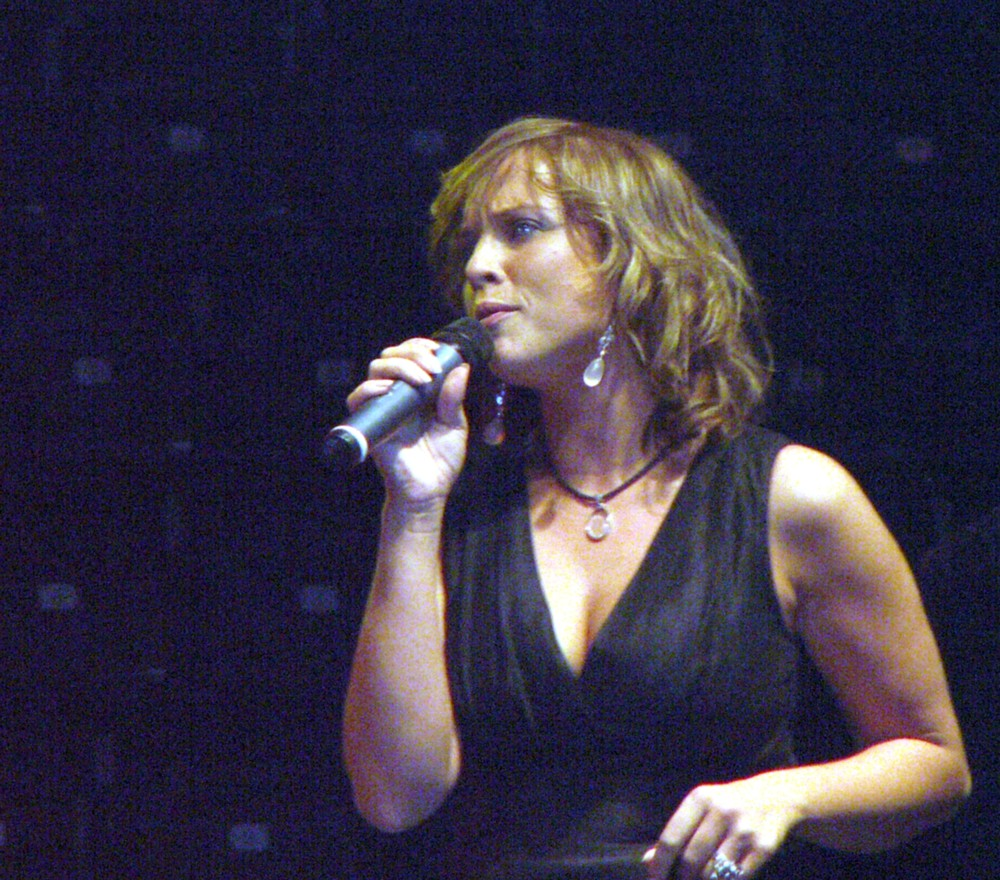 Actress and vocalist Inga Jankauskaitė